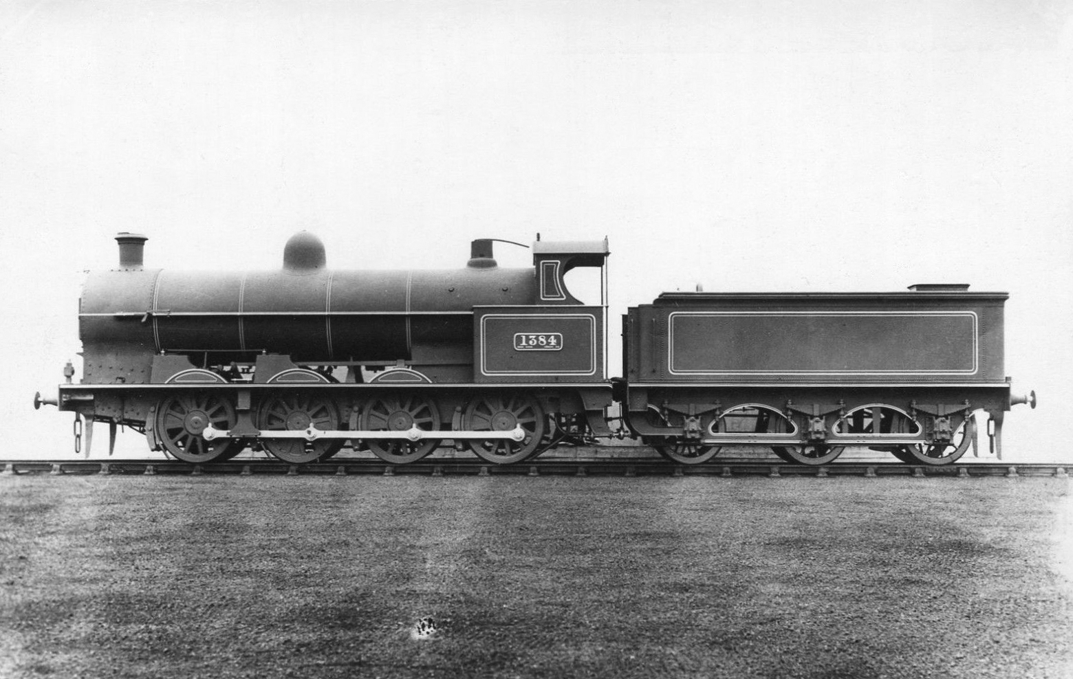 Photograph of LNWR engine No. 1384 G1 Class